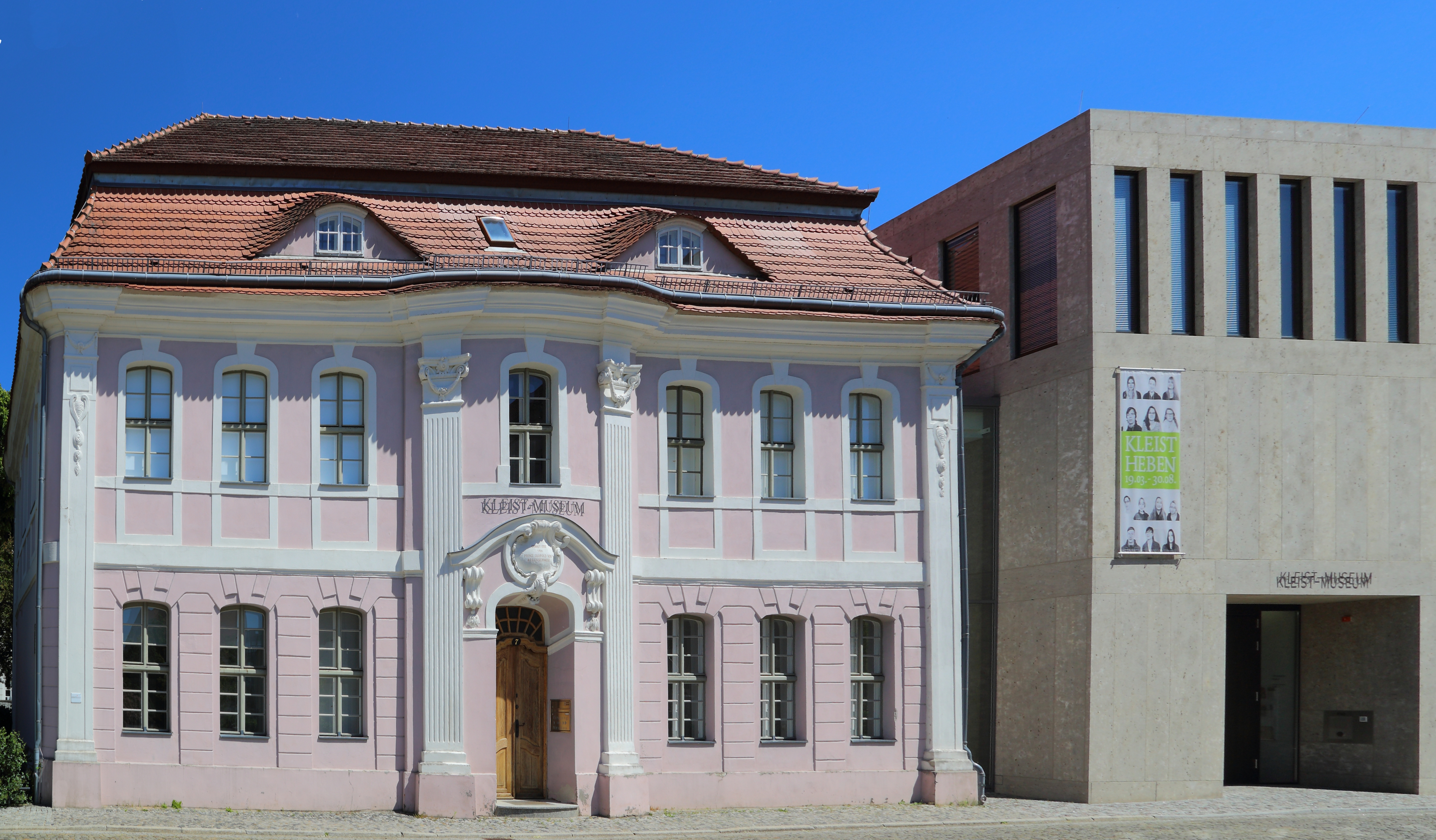 The Kleist Museum in Frankfurt (Oder), Brandenburg, Germany. The part on the left is the former Garrison School.